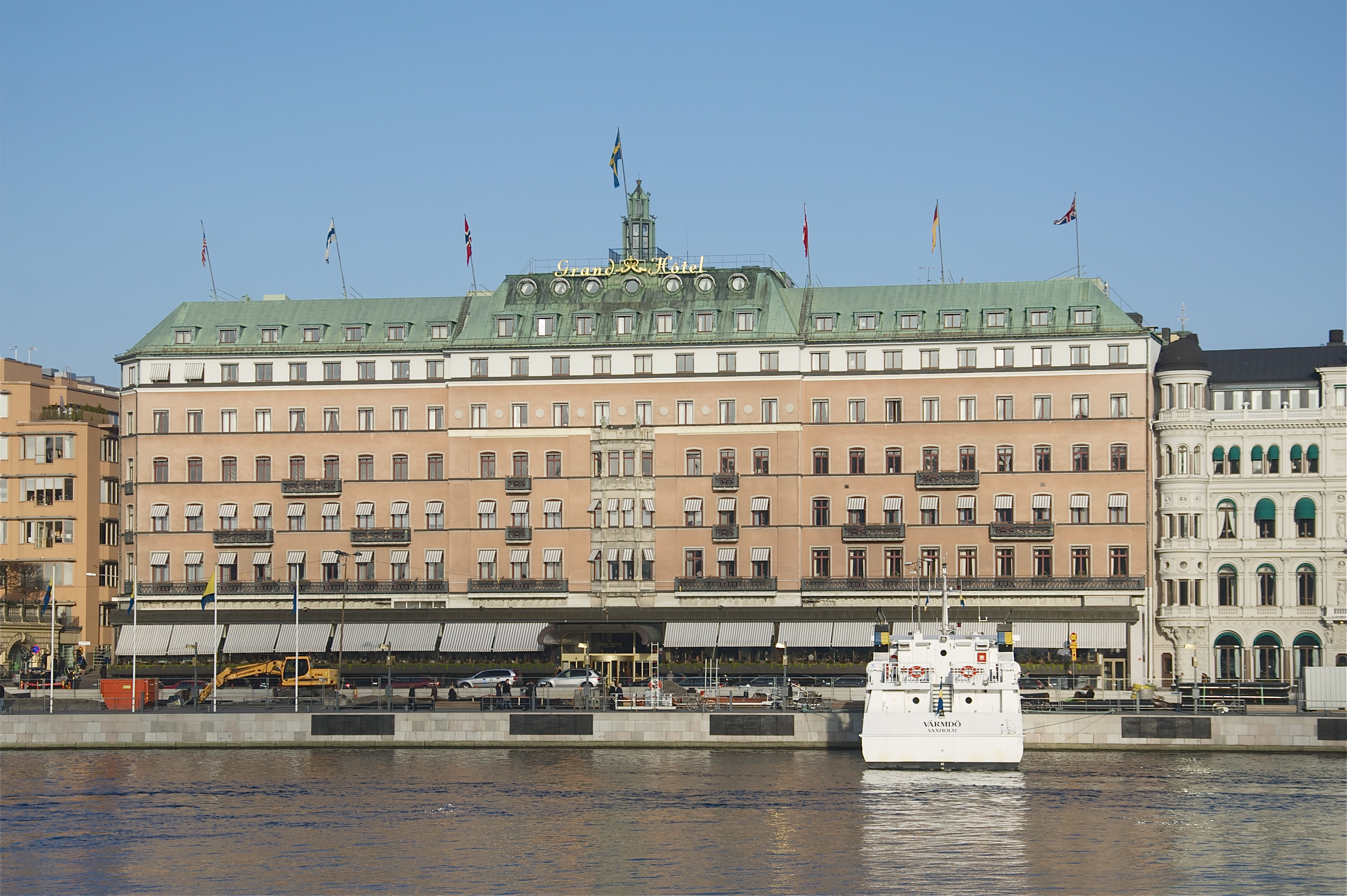 Grand Hôtel, Stockholm